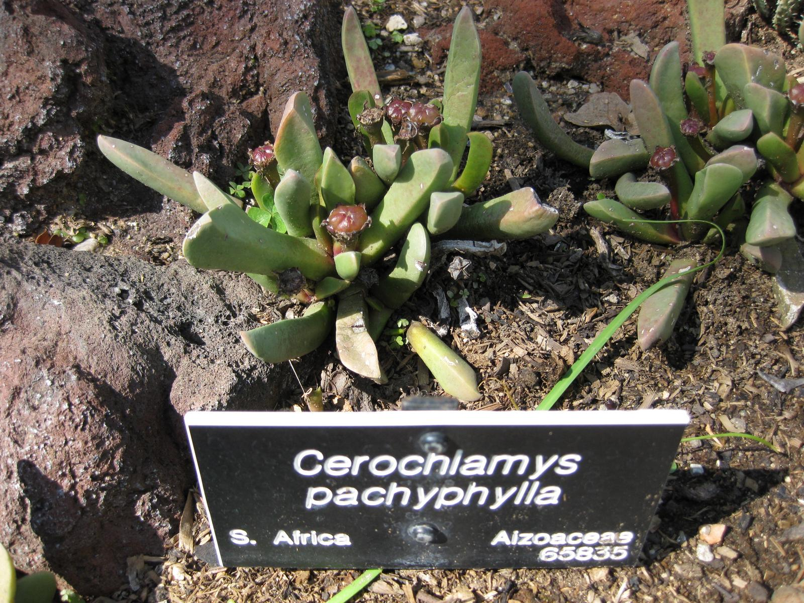 Photographed at Huntington Gardens (Los Angeles, California) in March